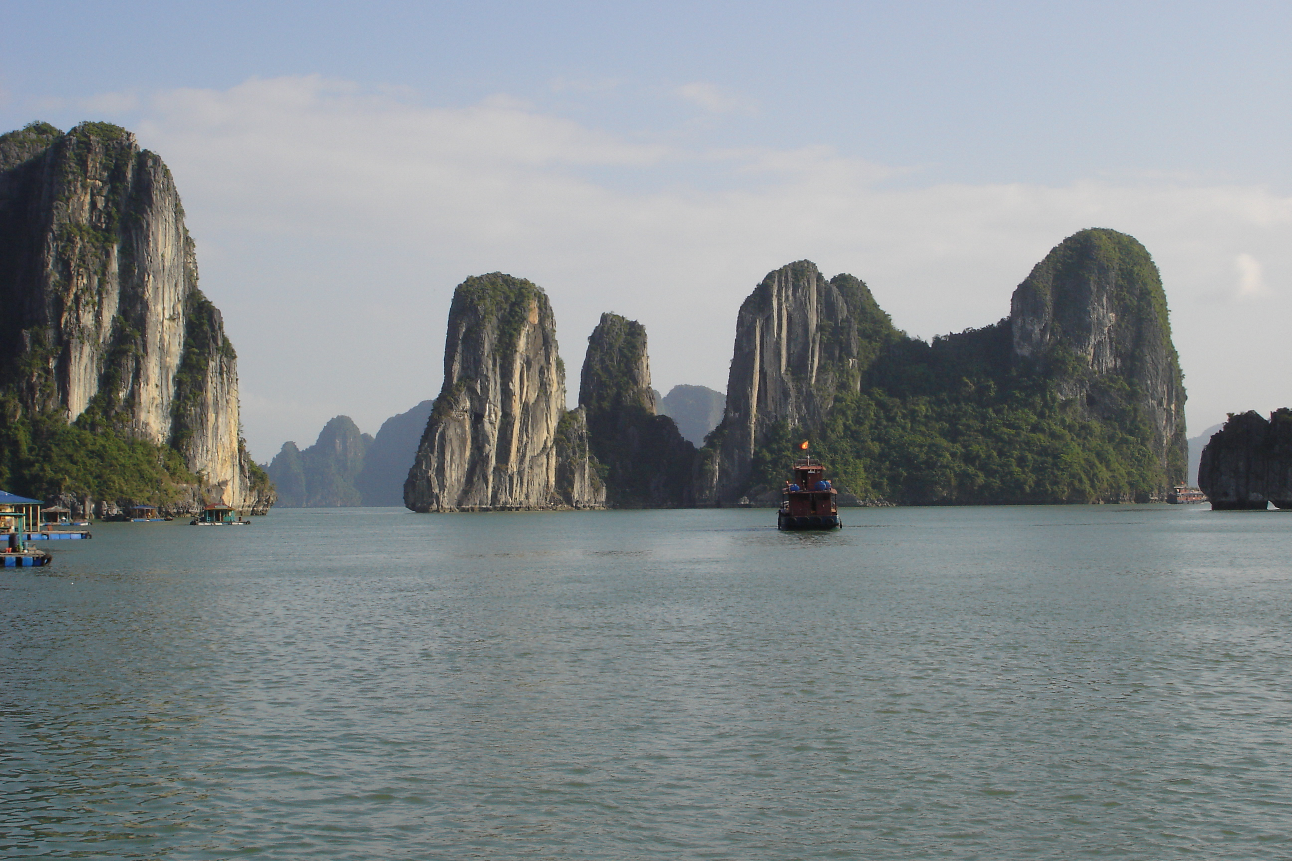 Ha Long Bay (Vietnam).